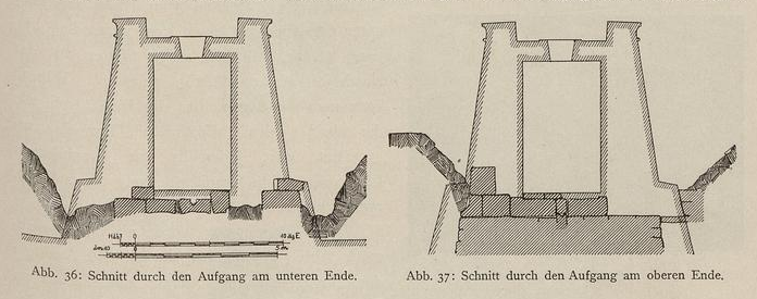 Cross-section of the causeway of Sahure's pyramid. Taken from Ludwig Borchardt's Das Grabdenkmal des Königs Sahur-Re (1910).